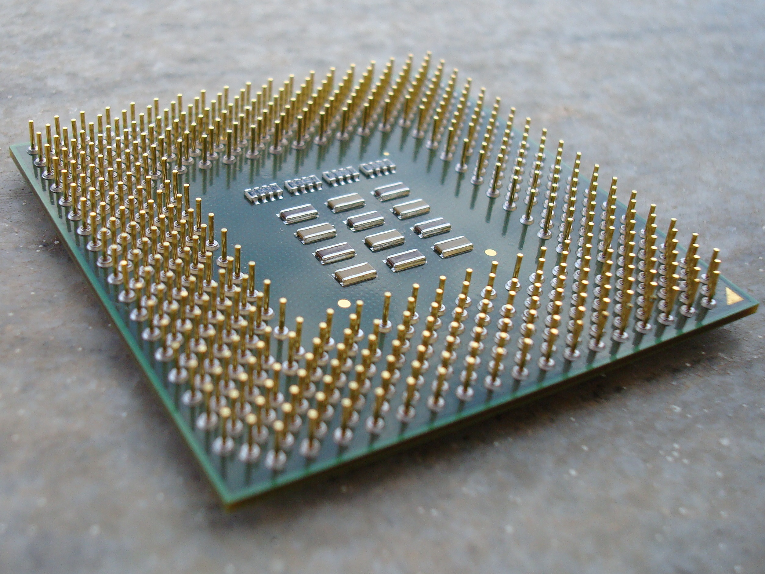 View of the underside of Athlon XP 1800+, Palomino core